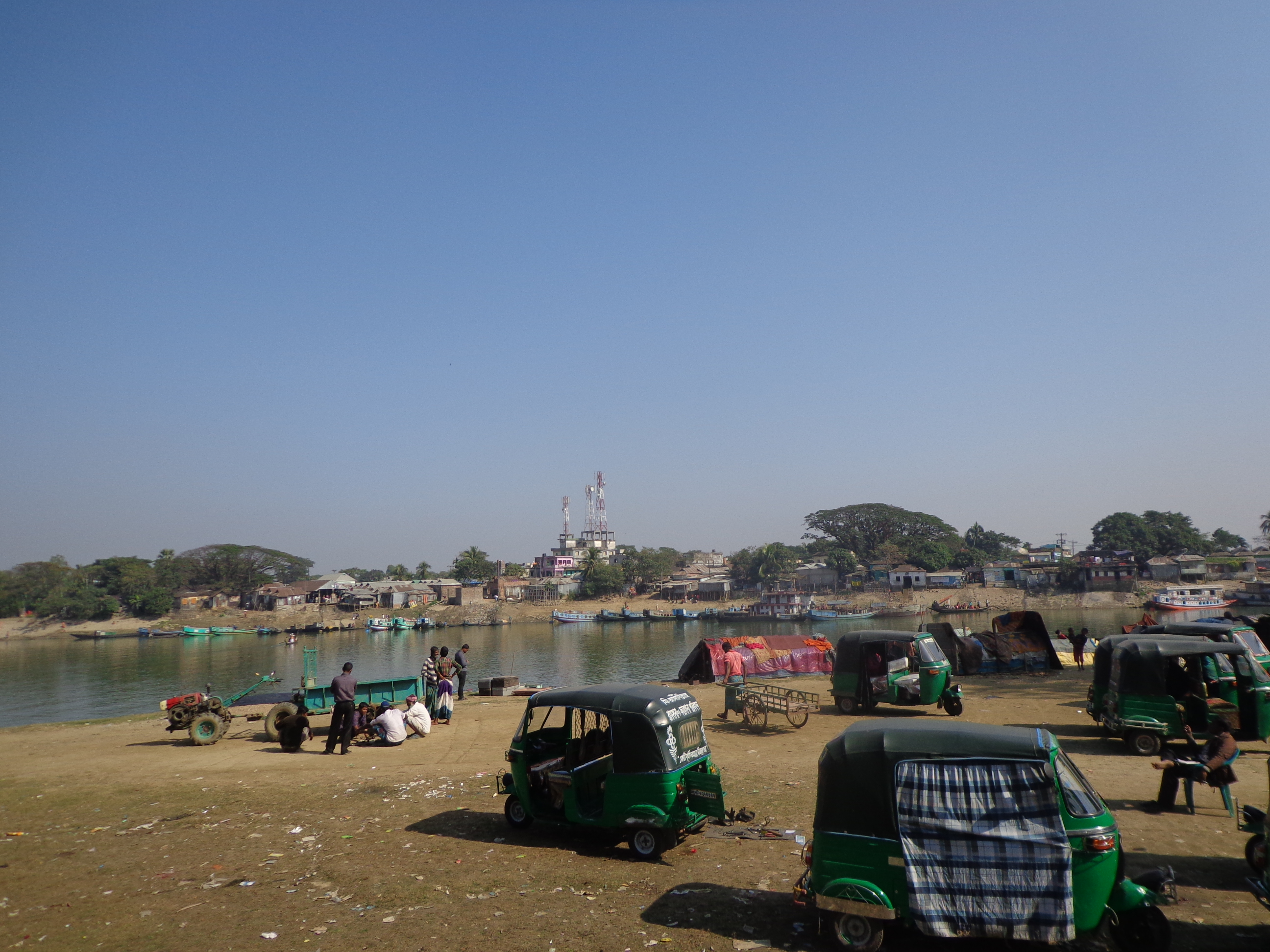 Surma River, image taken from Jamalganj High School